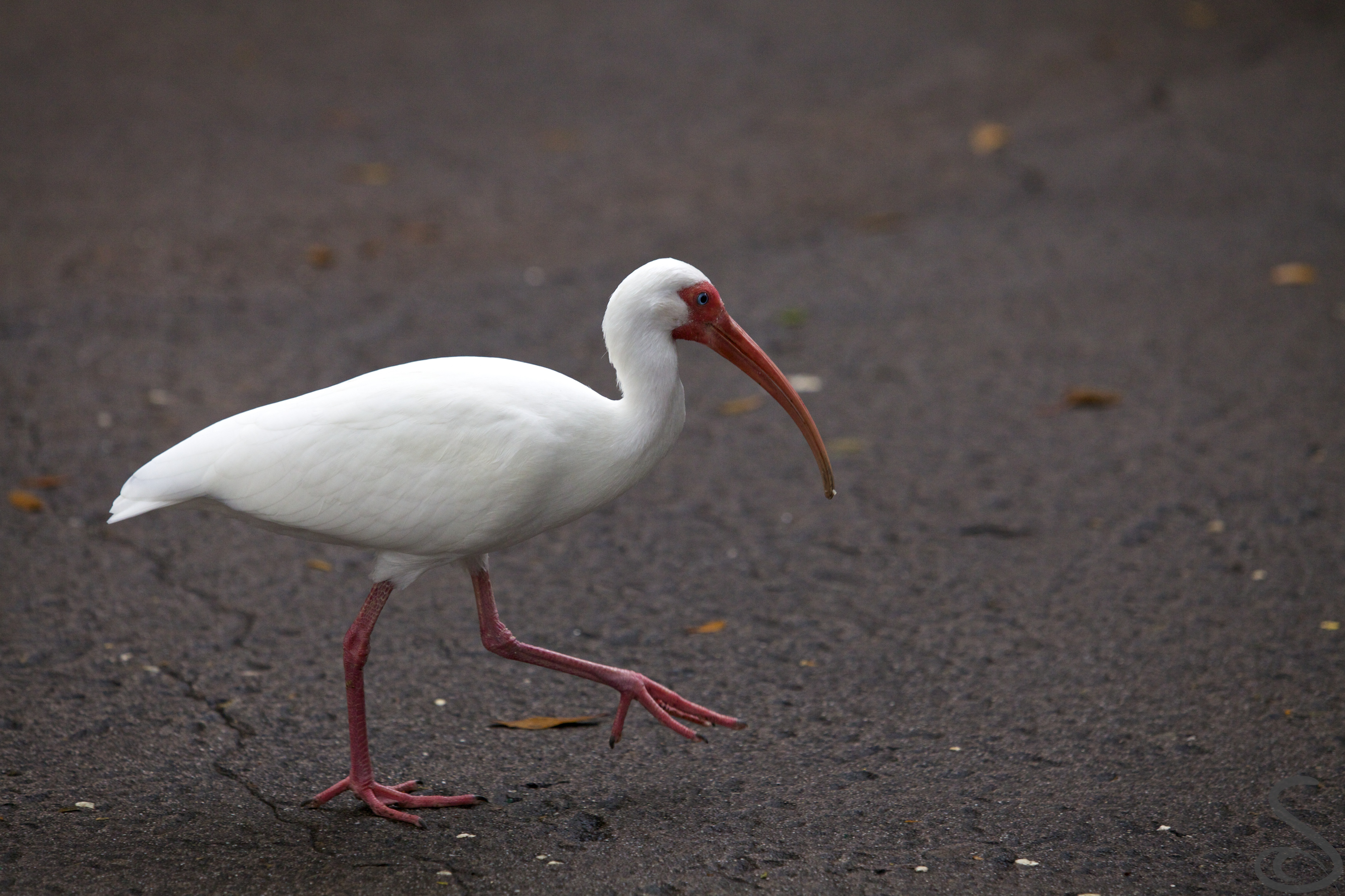 A photo of an American White Ibus.